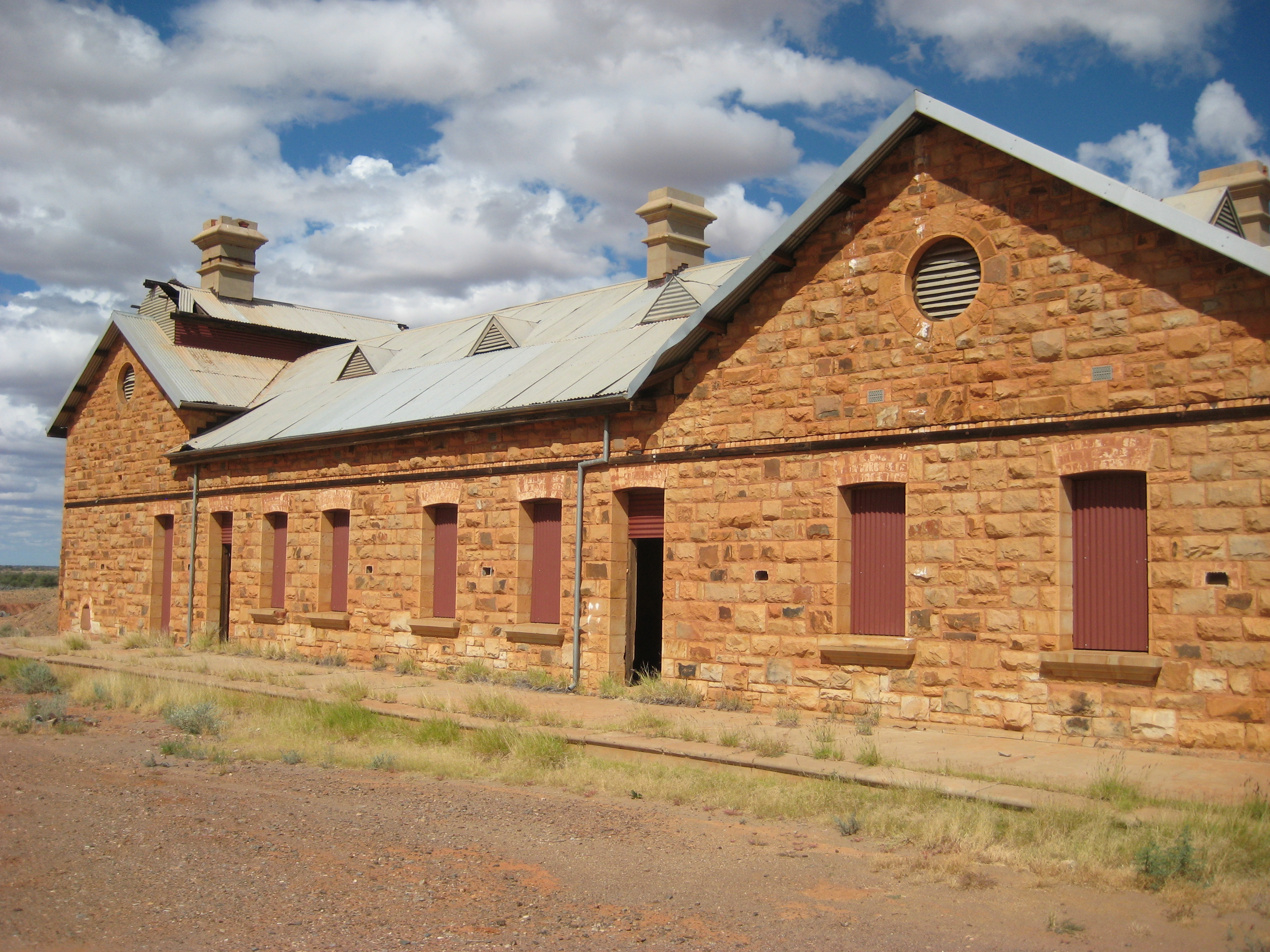 The mine office at the closed Great Fingall Gold Mine, near Day Dawn, Western Australia.